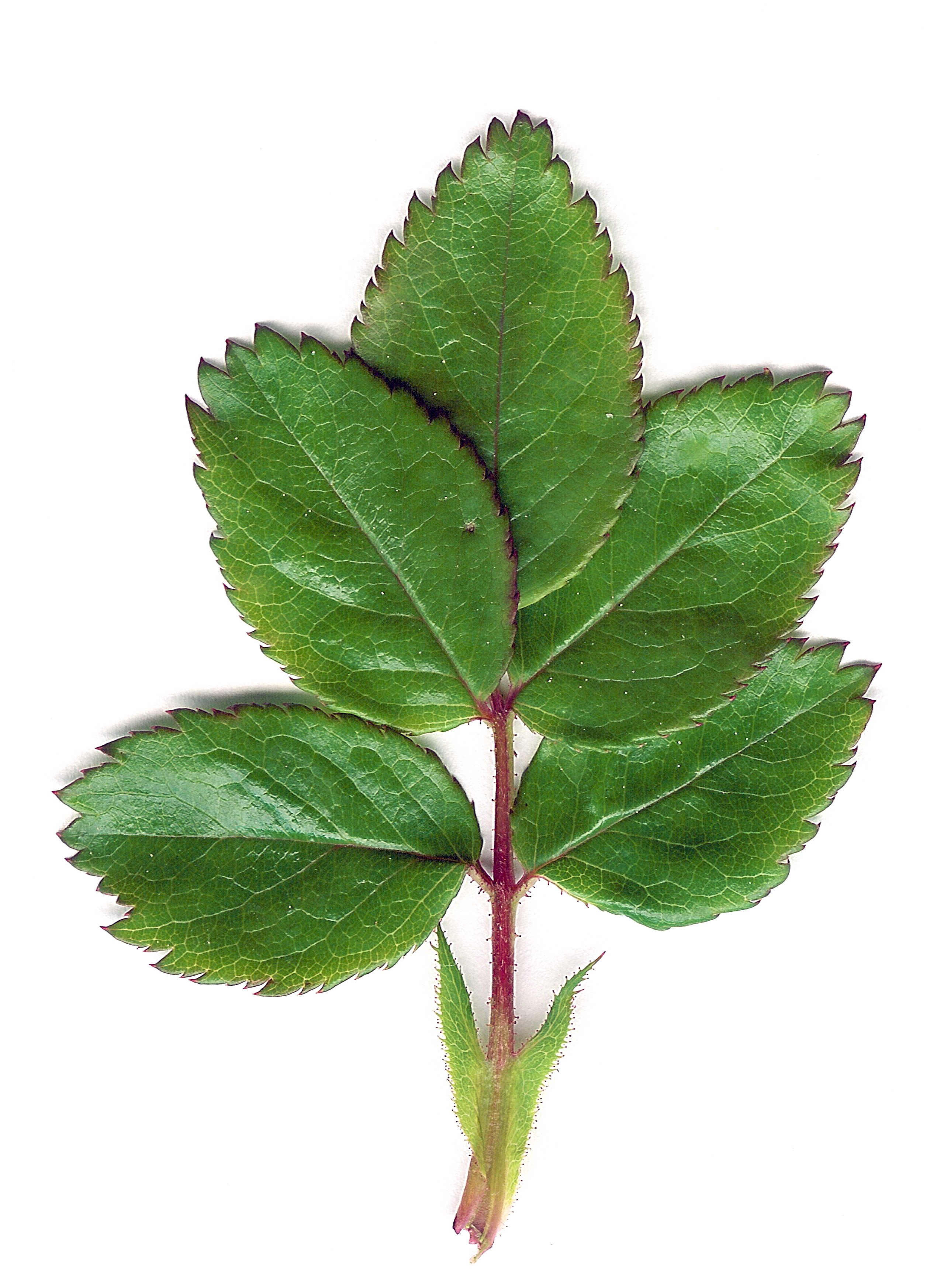 Young leaves of a garden rose, image created by myself in spring 2005, GNU-FDL